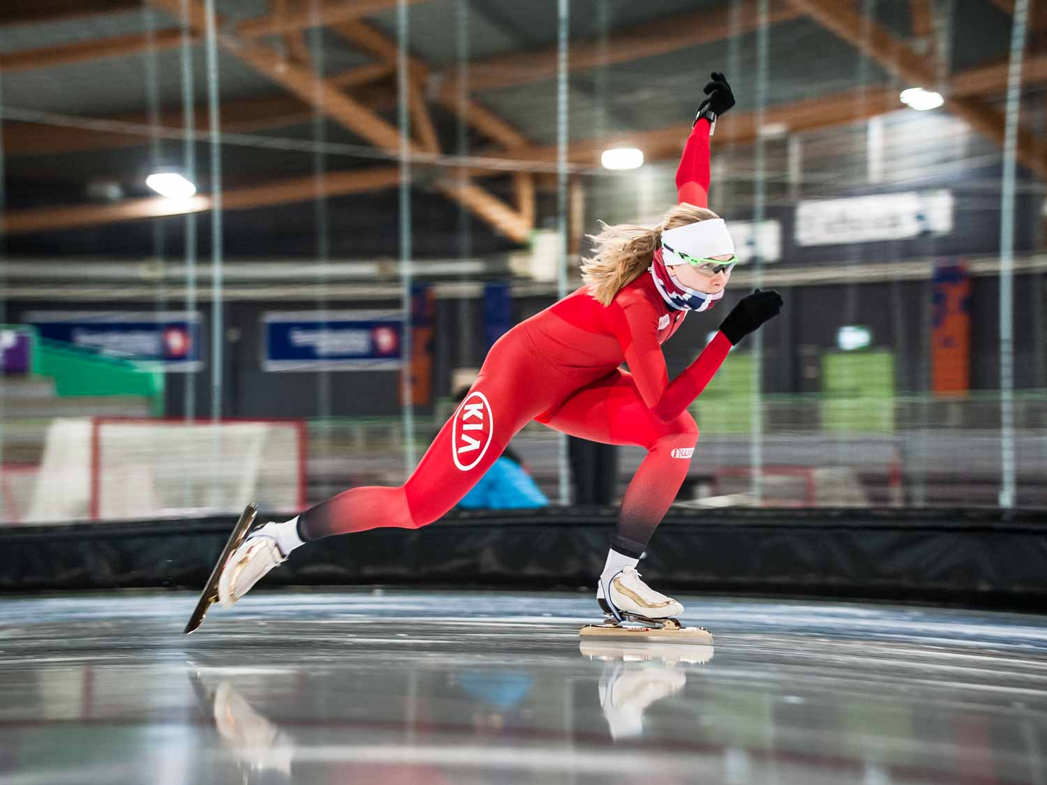 Norwegian speedskater